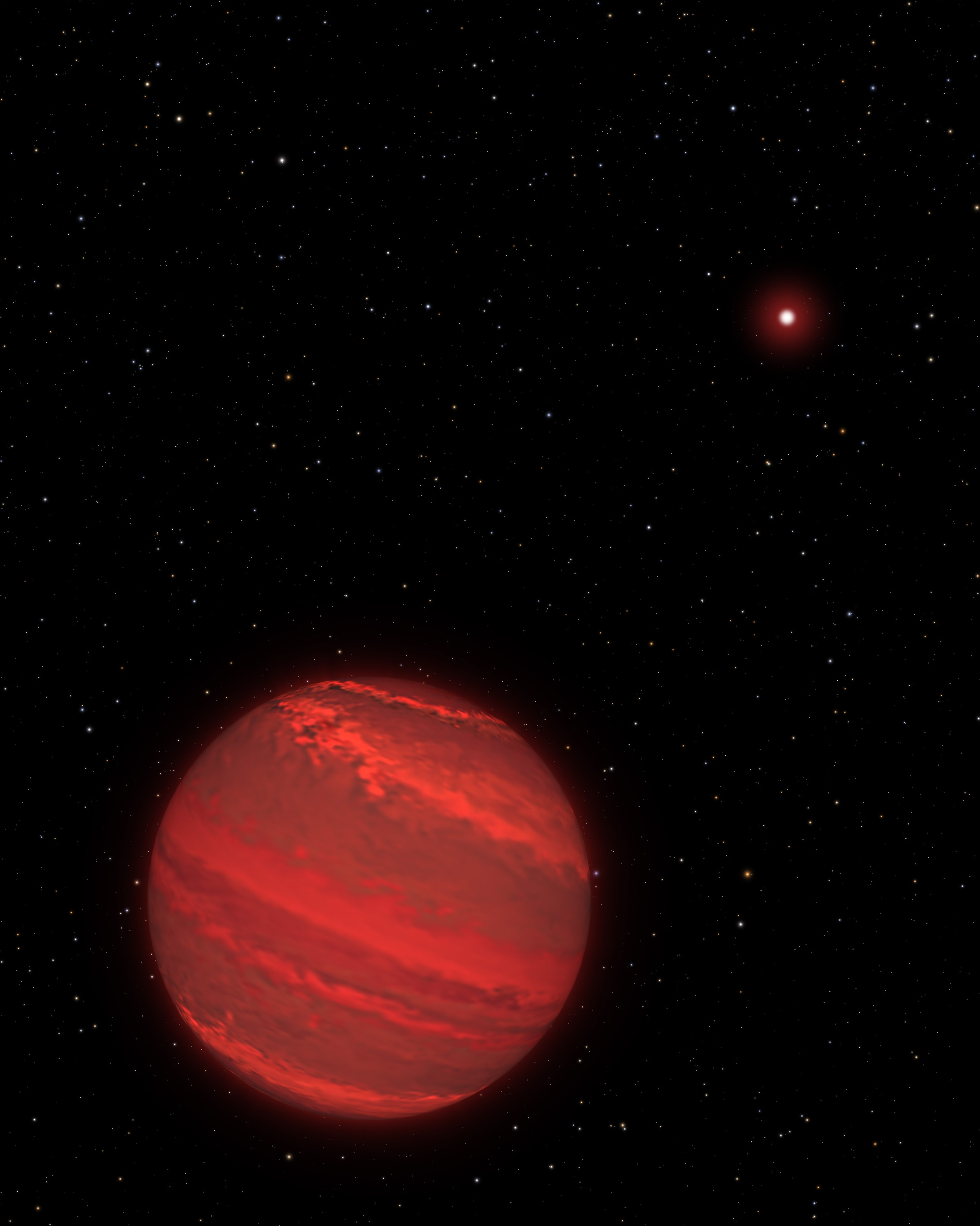 This is an artist impression of a planet that is four times the mass of Jupiter and orbits 8 billion kilometres from a brown-dwarf companion (the bright red object seen in the background). The rotation rate of this super-Jupiter has been measured by studying subtle variations in the infrared light the hot planet radiates through a variegated, cloudy atmosphere. The planet completes one rotation every 10 hours — about the same rate as Jupiter. Because the planet is young, it is still contracting under gravity and radiating heat. The atmosphere is so hot that it rains molten glass and, at lower altitudes, molten iron. Because the planet is only 170 light-years away, many of the bright background stars that can be seen from Earth can be seen from the planet's location in our galaxy, including Sirius, Fomalhaut, and Alpha Centauri. Our sun is a faint star in the background, located midway between Procyon and Altair.